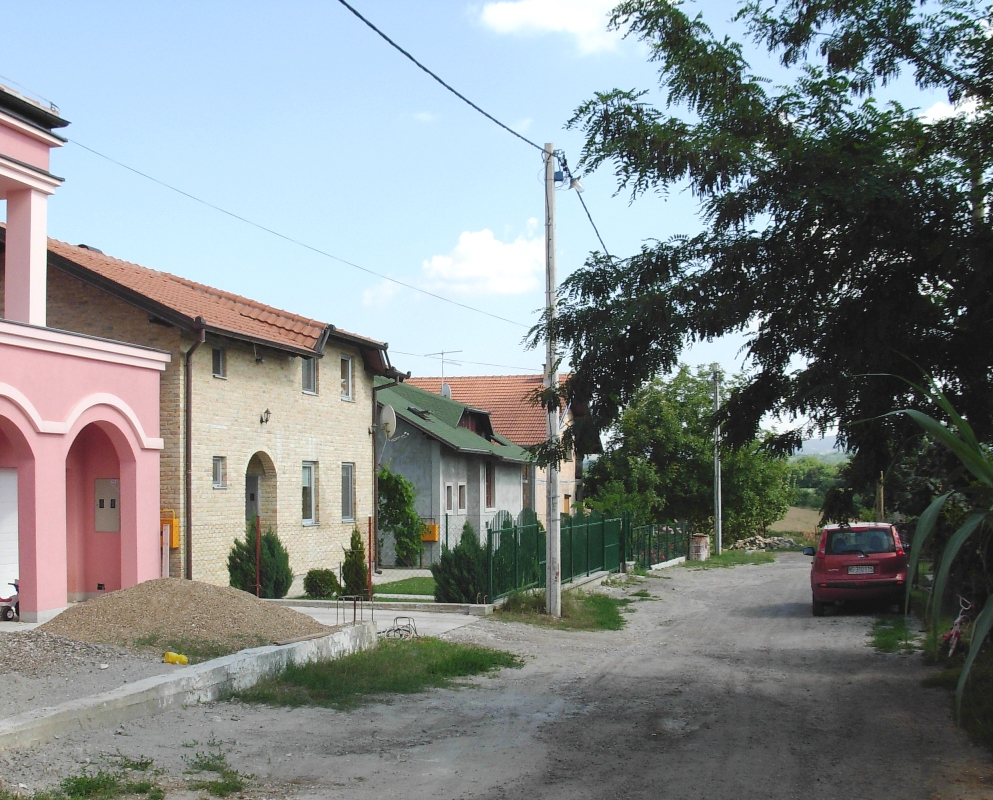 Trandžament, Novi Sad